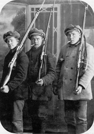 Red soldiers during Finnish civil war